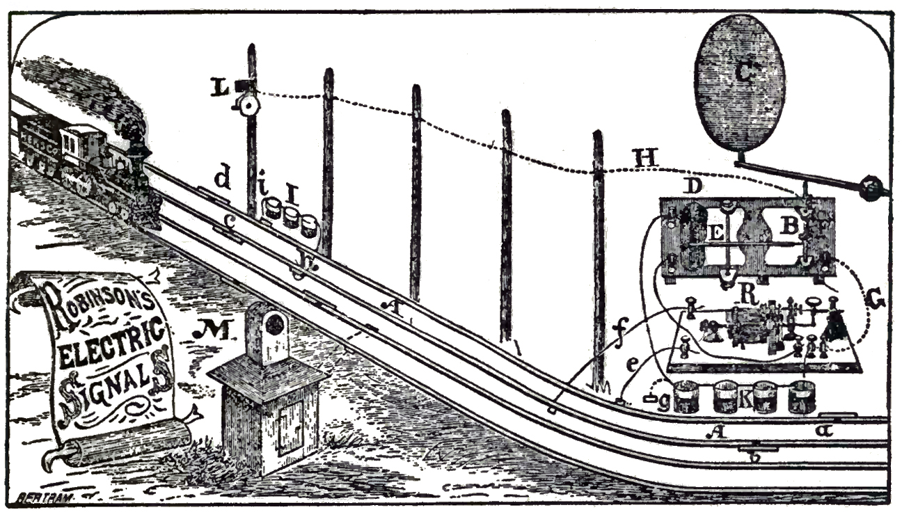 Illustration of railroad track circuit invented by Dr. William Robinson in 1872, from his circular of January 1874. Legend: C-Primary signal. E-Magnet. H-Line wire circuit. I-Track battery. K-Primary signal battery. L-Distant signal. R-Relay.